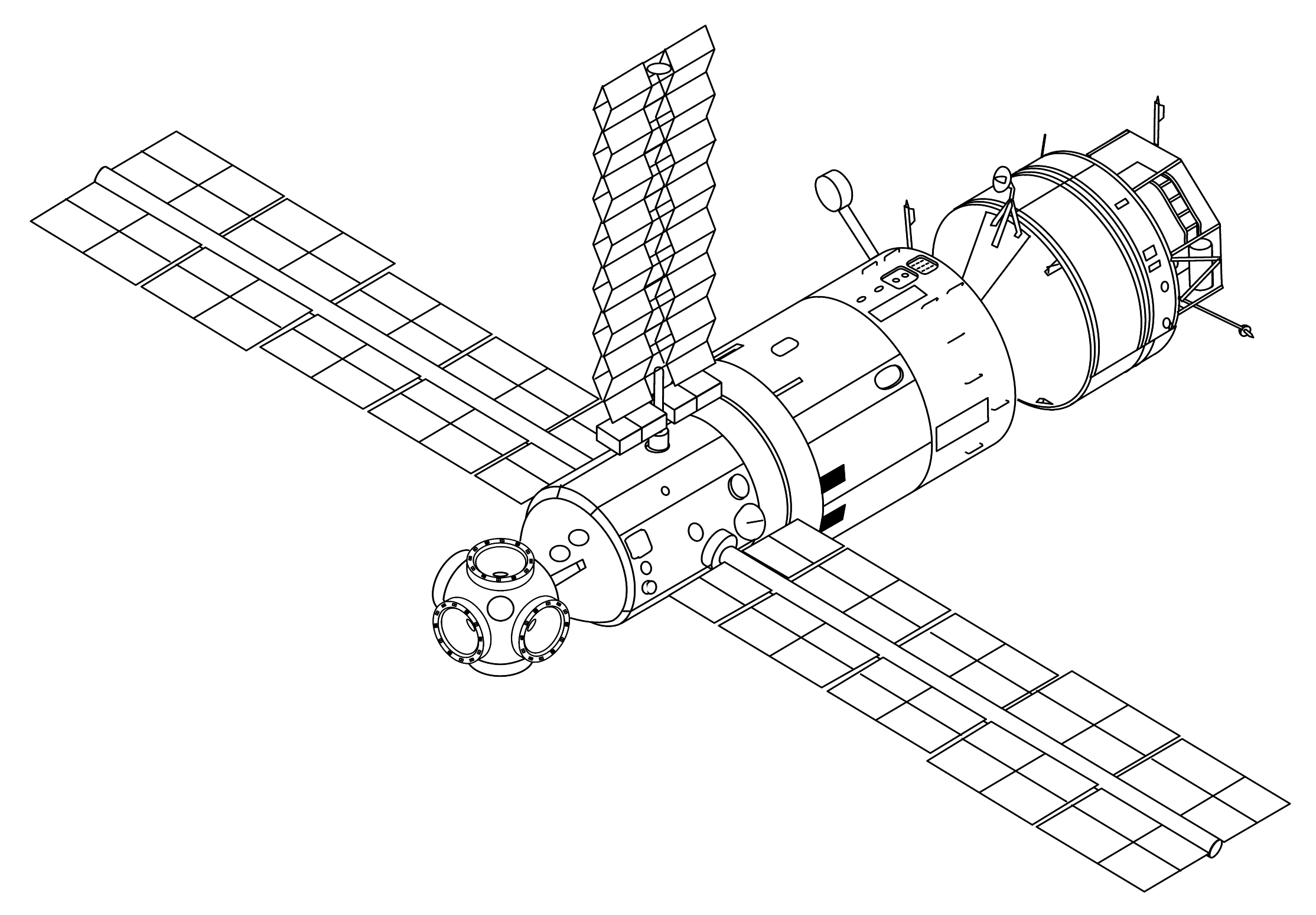 Mir base block (left) and Kvant (right) (1987). Note third solar array added to the top of the Mir base block. It was delivered inside Kvant. Soyuz-TM and Progress vehicles omitted for clarity.